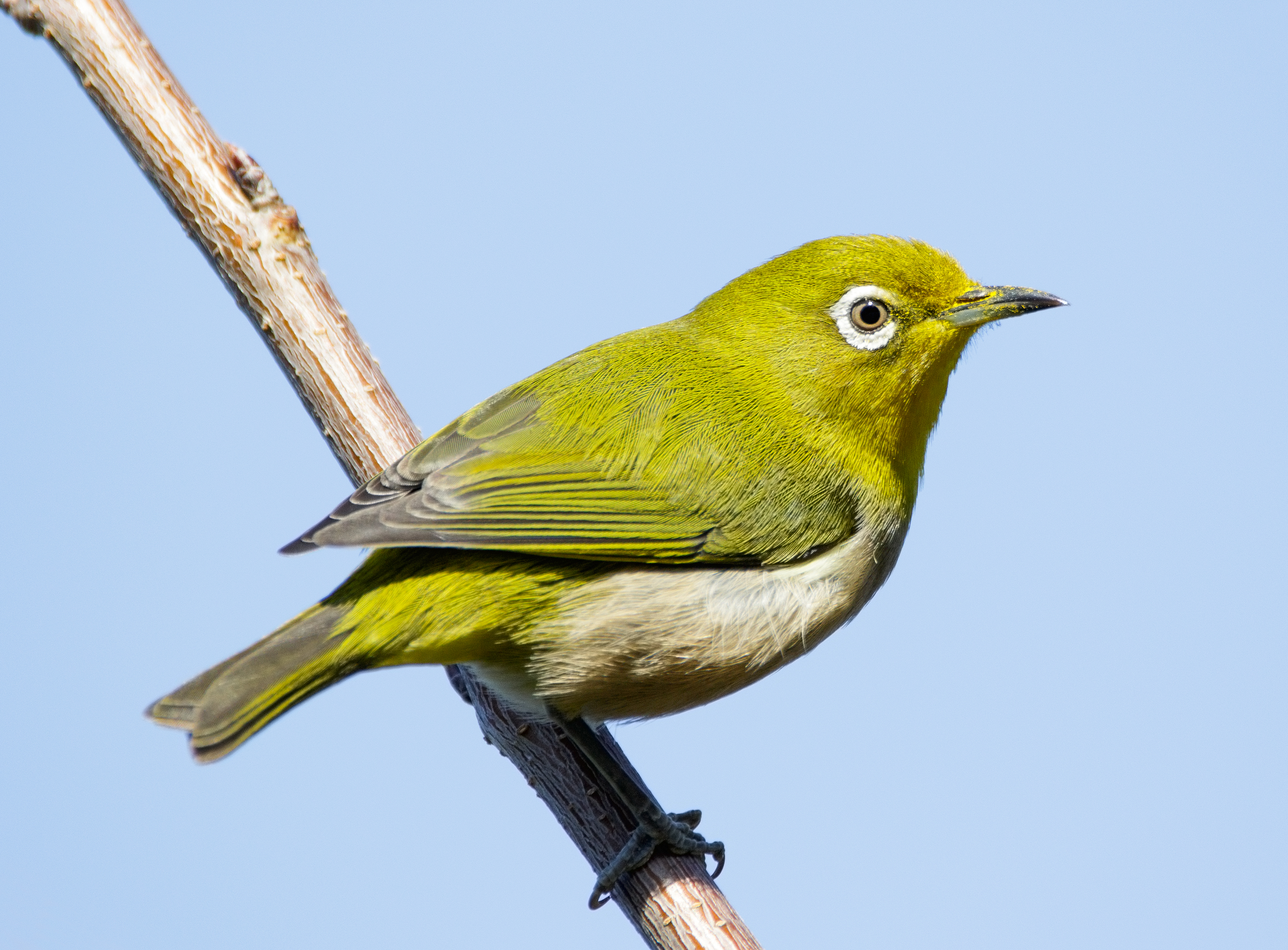 Japanese white-eye at Tennōji Park in Osaka.